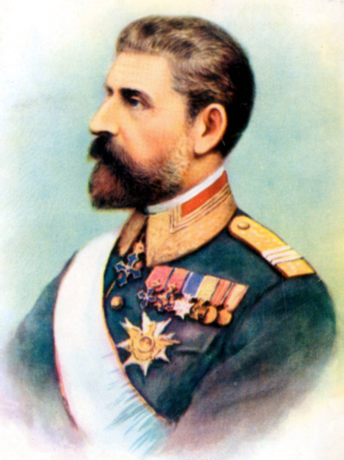 Ferdinand I of Romania